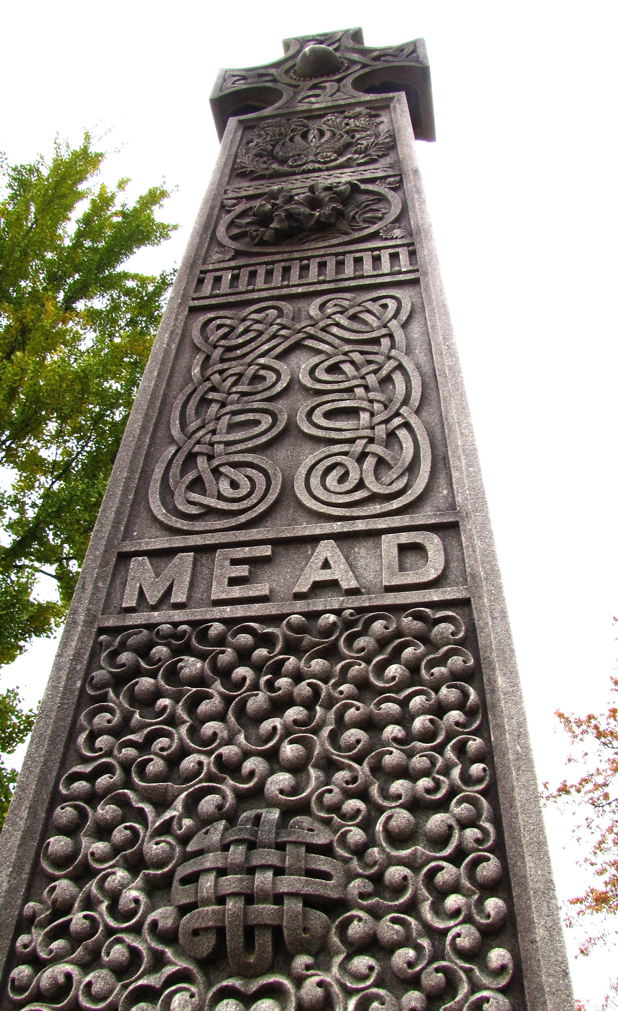 Grave monument of marble quarry magnate Frank Seymour Mead (1864–1936) at Old Gray Cemetery in Knoxville, Tennessee, USA. This monument was carved from Tennessee marble by sculptor D.H. Geddes.